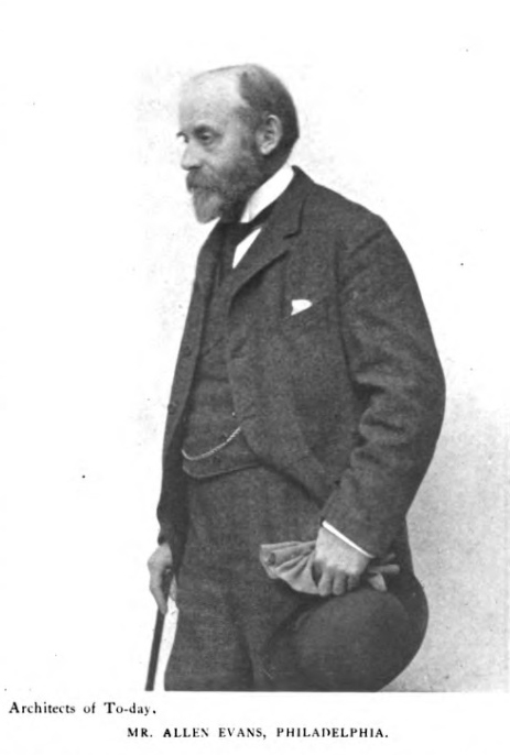 "Architects of Today: Mr. Allen Evans, Philadelphia."